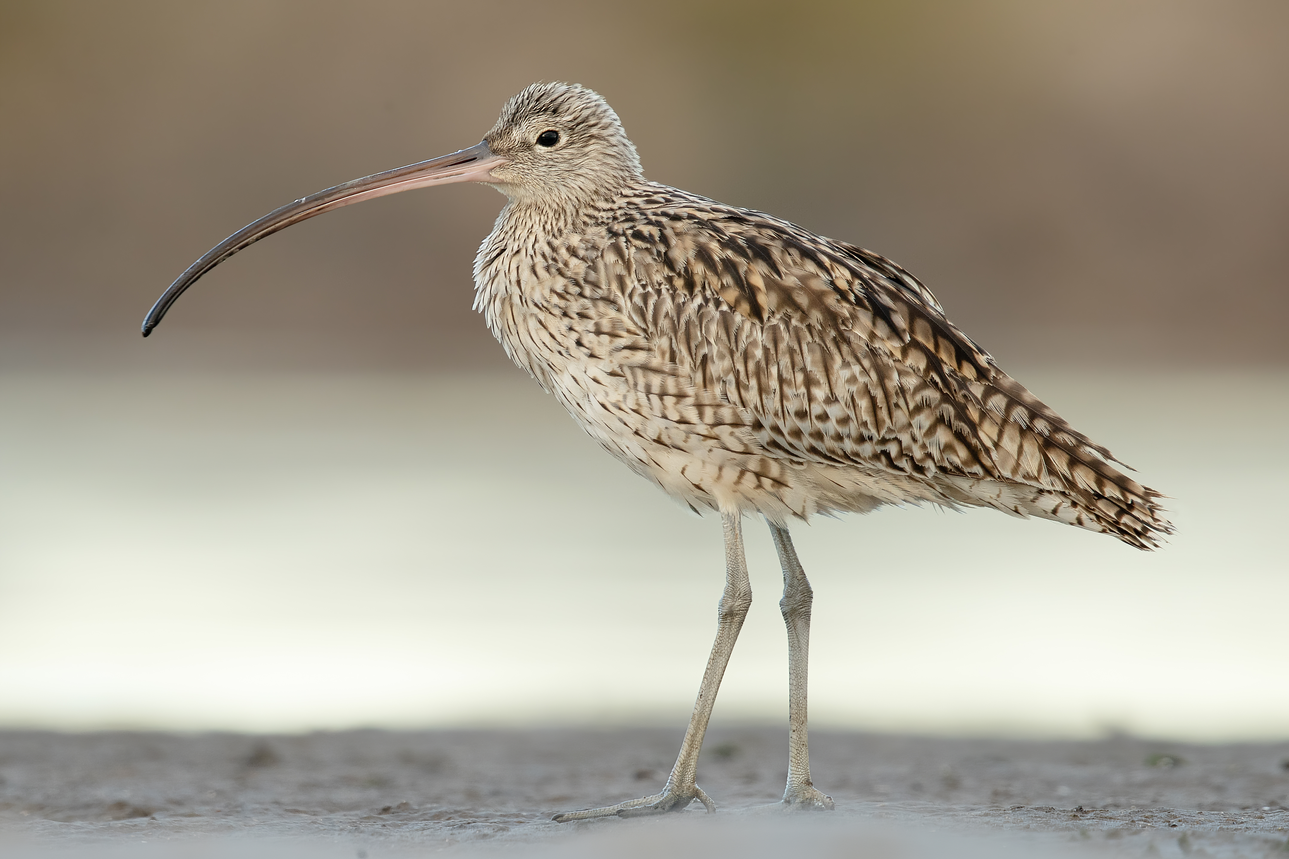 Far Eastern Curlew (Numenius madagascariensis), Stockton Sandspit, New South Wales, Australia